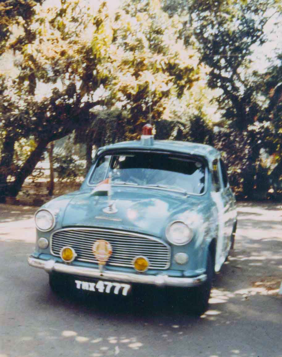 Hindustan Ambassador car used by M. G. Ramachandran